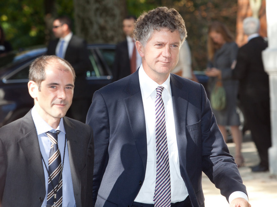 Jonathan Powell and Paul Rios International Conference to Promote the resolution of the conflict in the Basque Country